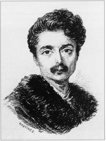 Jules Barbey d'Aurevilly (1808-1889)